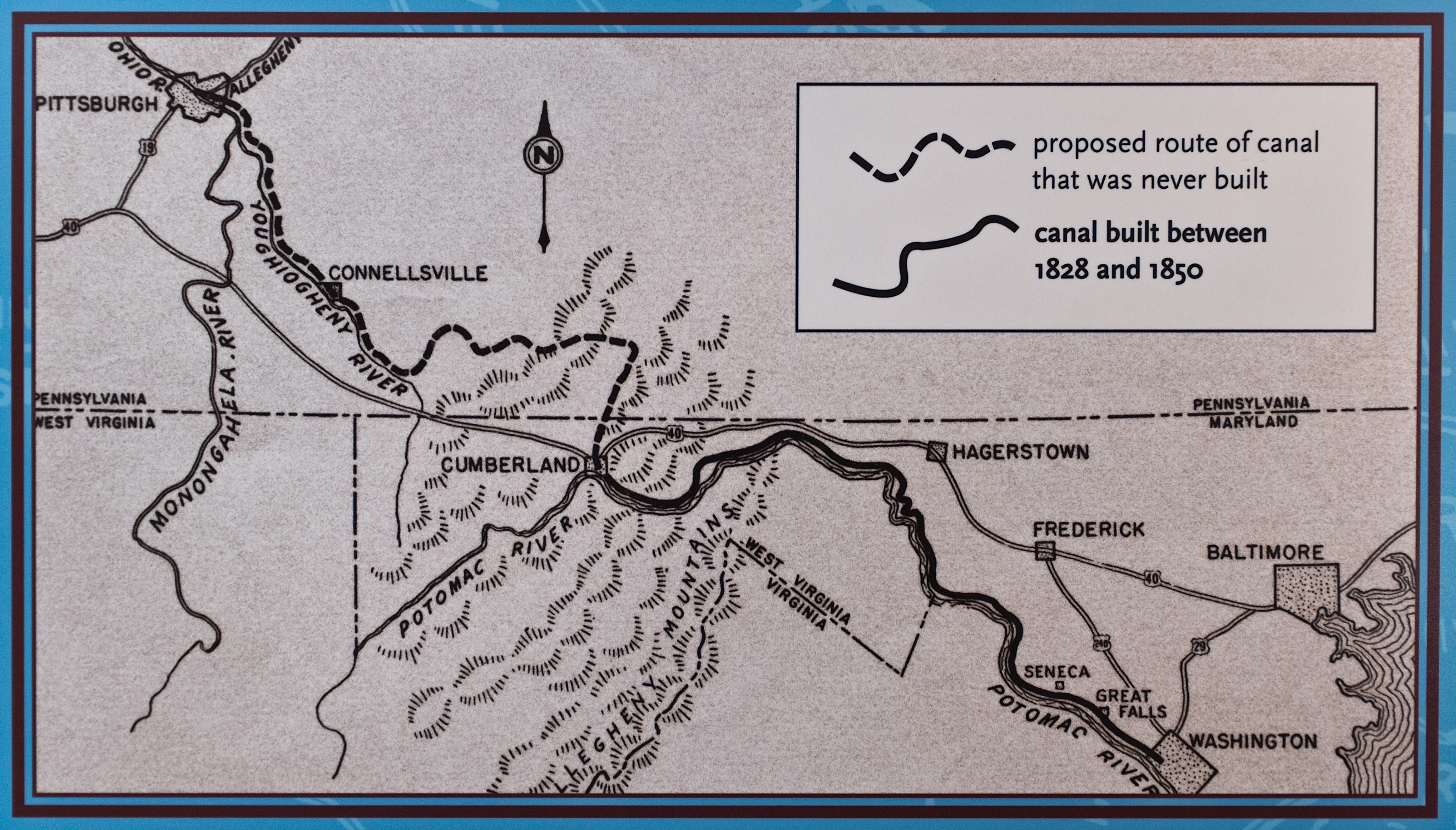 Proposed Map of Chesapeake and Ohio Canal, including portions never built. The line follows Wills Creek north from Cumberland to Hyndman PA, continues north up Little Wills Creek north and west. It crosses the Eastern Divide, follows Buffalo Creek (just south of Berlin PA) to Garret PA on the Casselman River. It then follows the Casselman river to the Youghiogheny River at Confluence, PA, then to Connellsville PA.